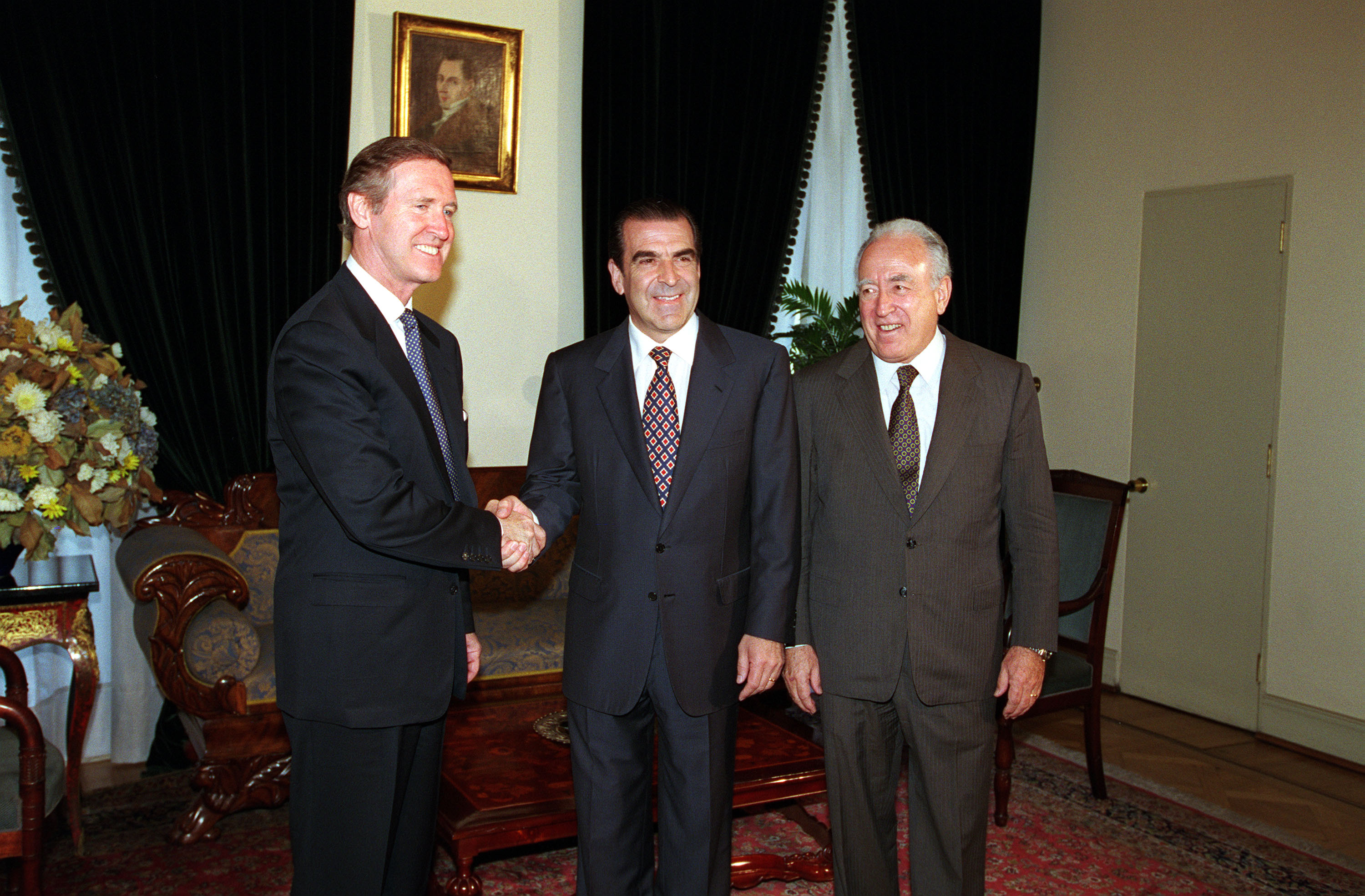 Secretary of Defense William S. Cohen (left) is welcomed to La Moneda by President Eduardo Frei Ruiz-Tagle (center) and Minister of Defense Edmundo Perez Yoma (right) in Santiago, Chile on Nov. 16, 1999. Cohen is in Santiago to meet with defense officials and discuss issues of interest to both nations.